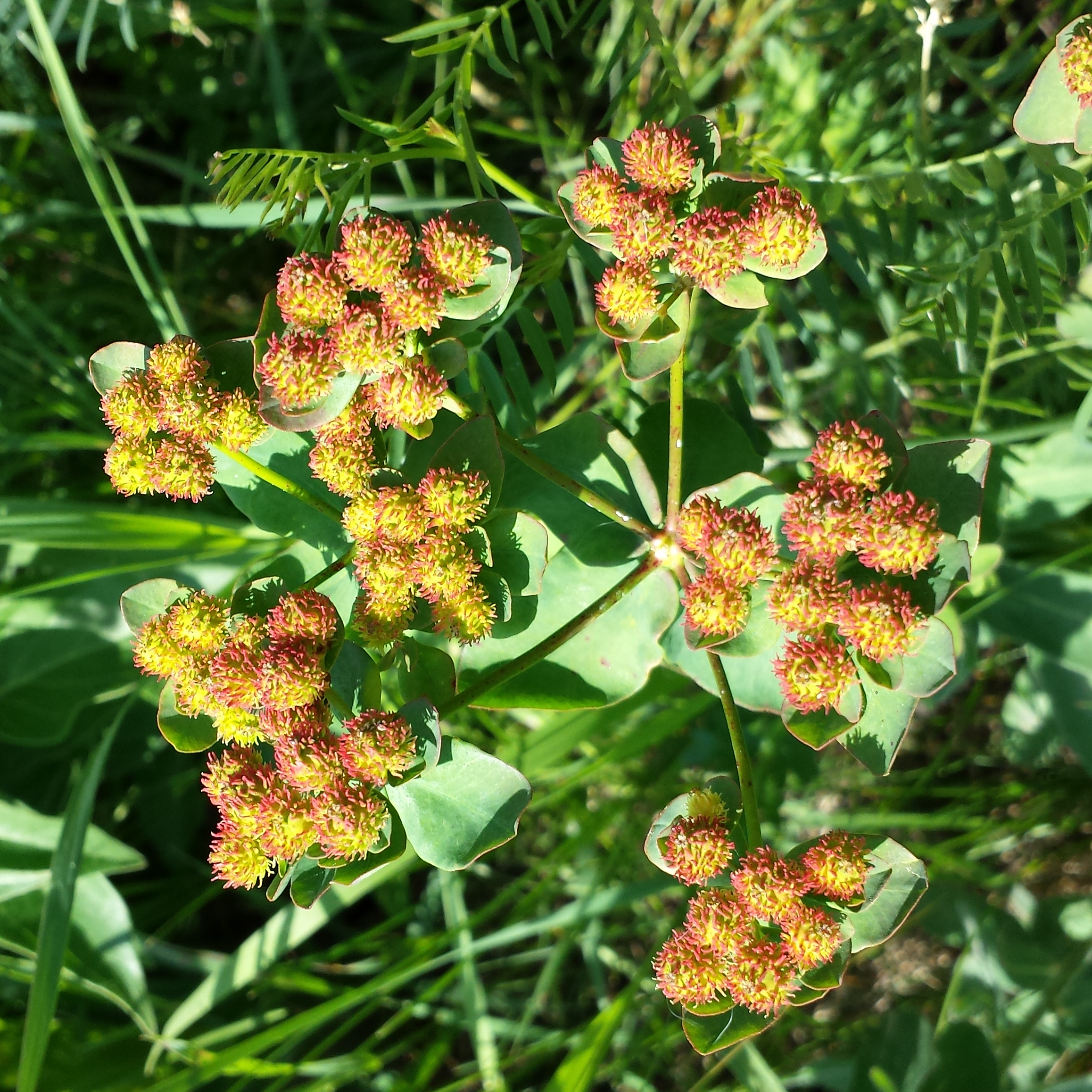 Taxon: Euphorbia polychroma (sensu Fischer et al. EfÖLS 2008) Location: Alte Schanzen, Werk XII, Vienna-Floridsdorf Habitat: dry grassland